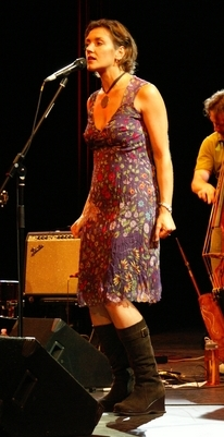 Jen Chapin performing at the Dix Hills center for the performings arts on Long Island